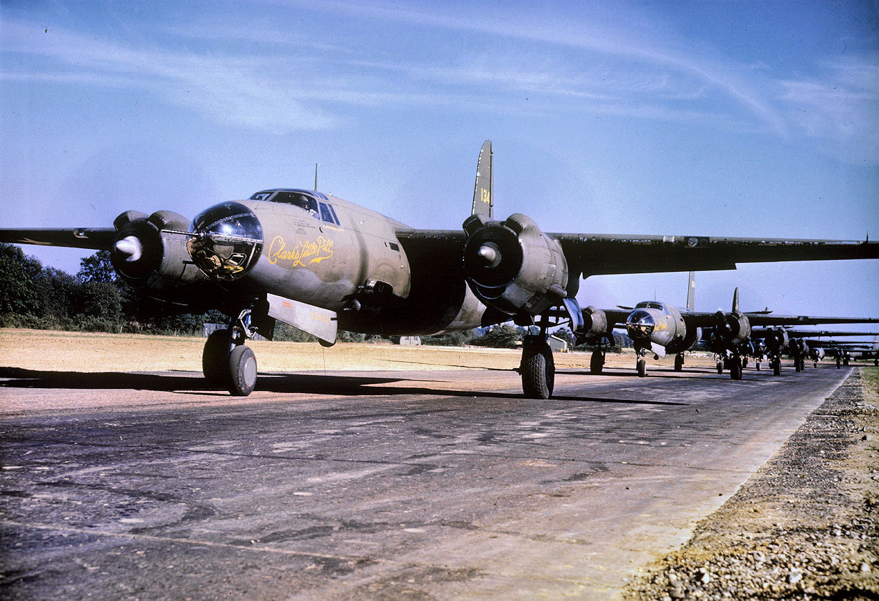 B-26 Marauders of the 322nd Bomb Group line up for take off behind a B-26 (serial number 41-34959) nicknamed "Clark's Little Pill".